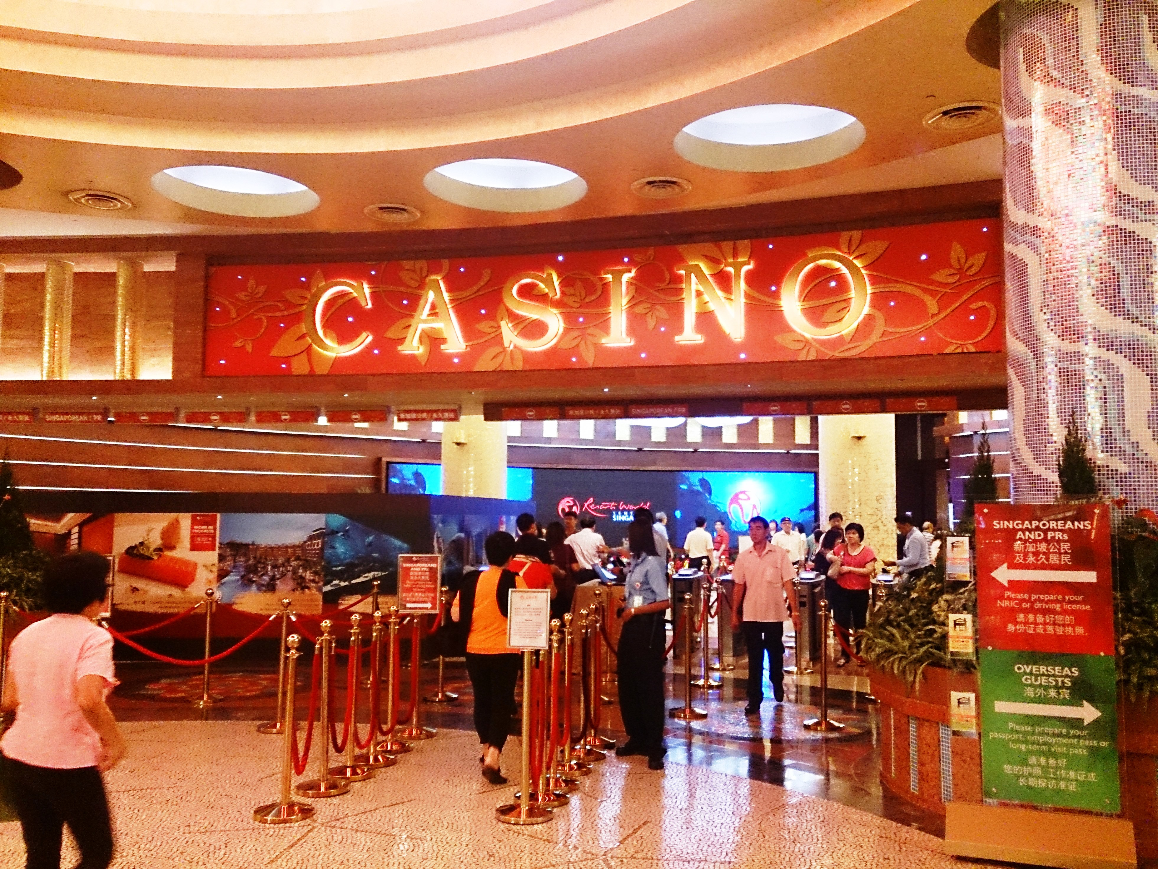 Casino at Resort World Sentosa (Singapore)